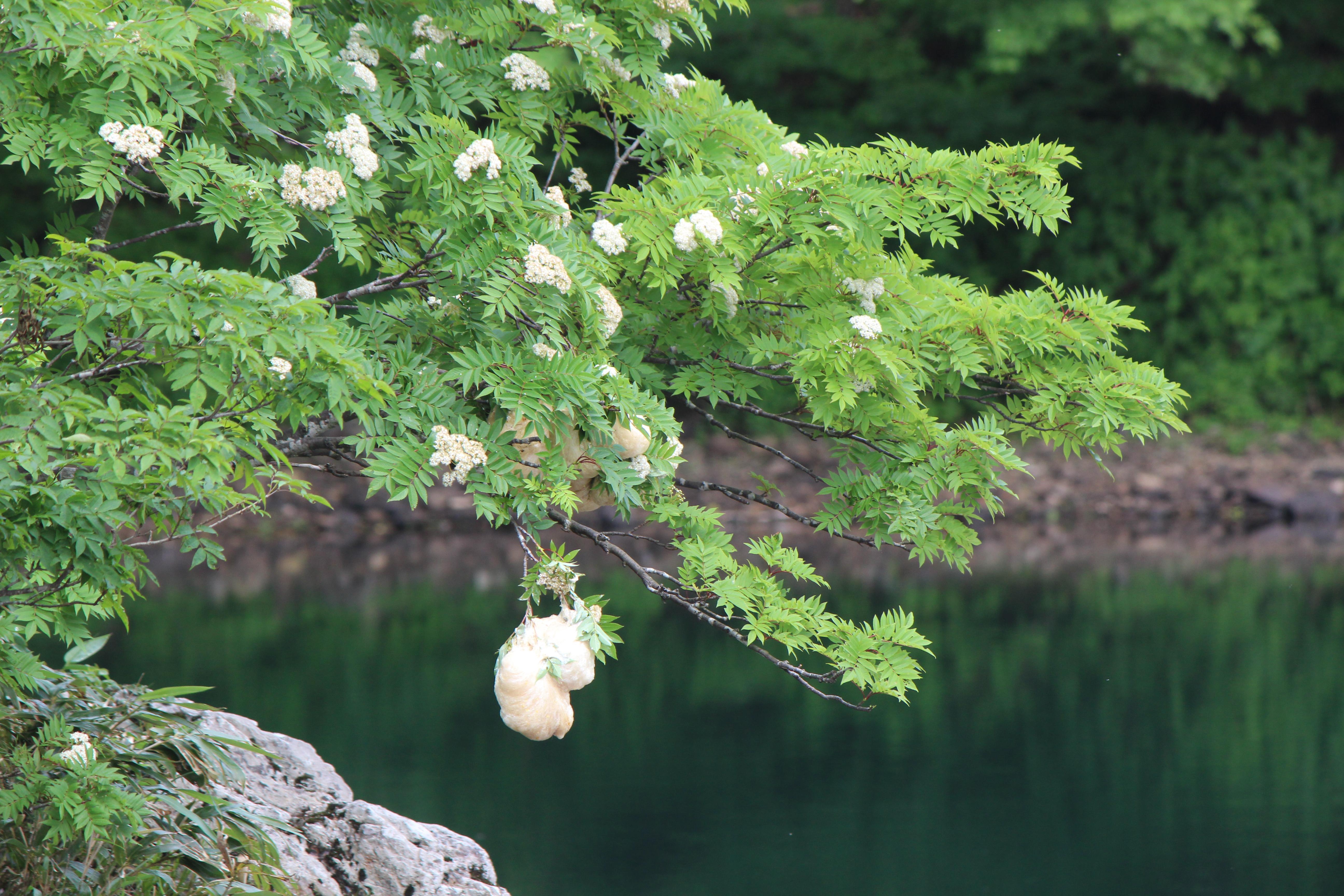 Eggs of Rhacophorus arboreus on tree, in Yasyagaike, Fukui pref., Japan.